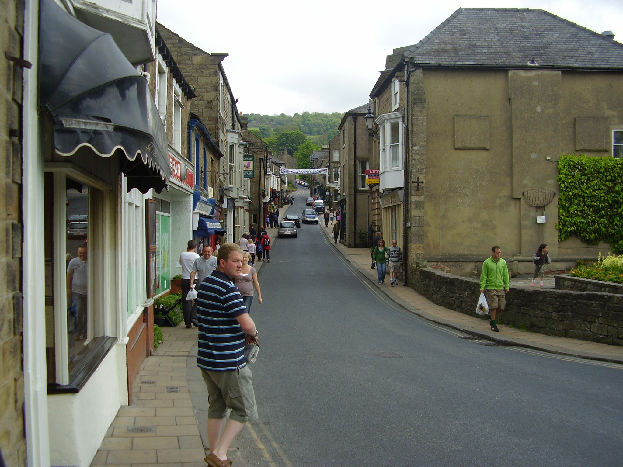 Picture of Pateley Bridge in North Yorks.